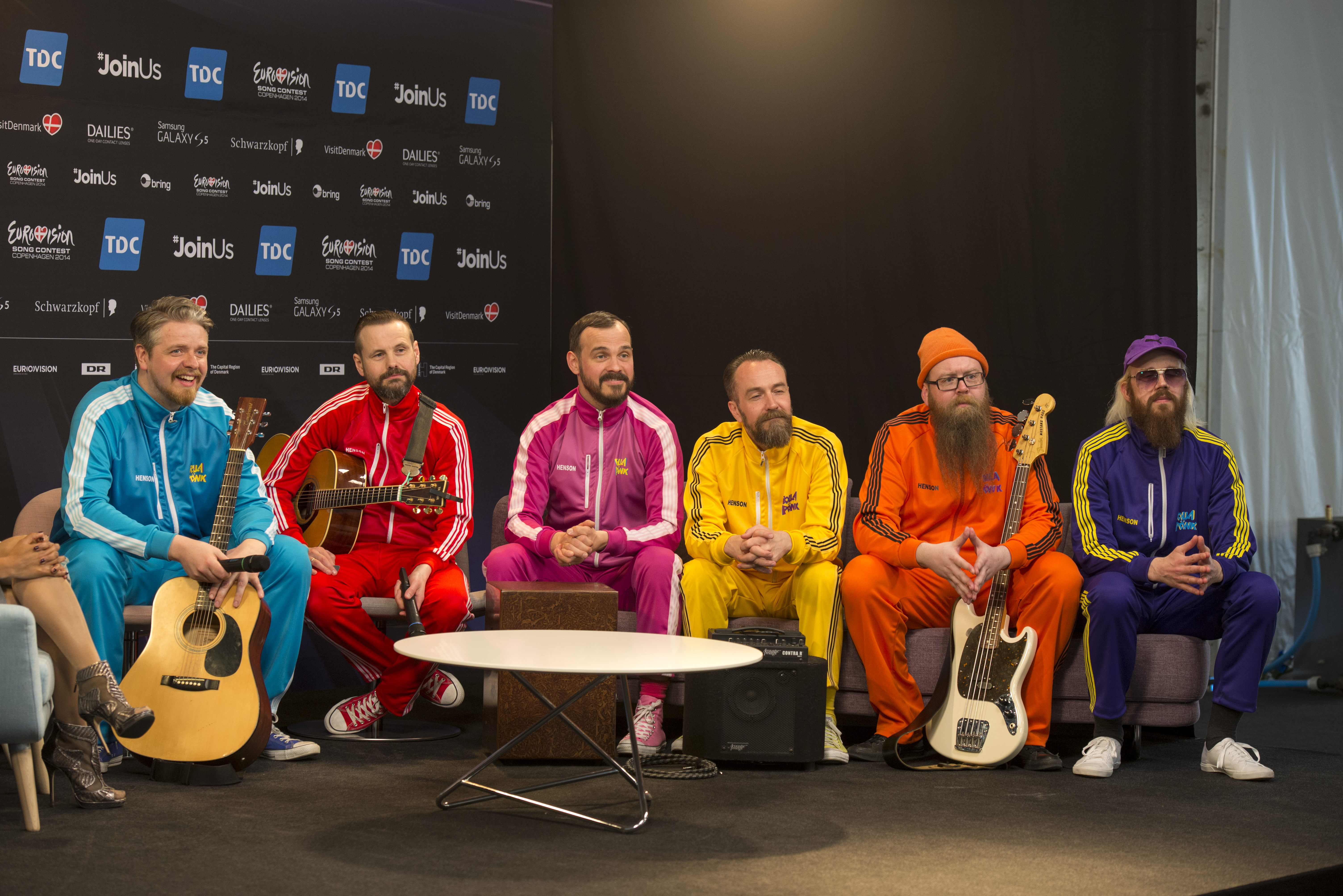 Pollapönk at a Meet & Greet during the Eurovision Song Contest 2014 Copenhagen. (Help translate this text)